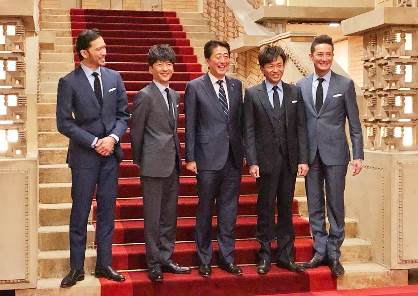 Meeting between Japanese rock/pop band TOKIO menbers and Japanese Prime Minister Shinzō Abe.